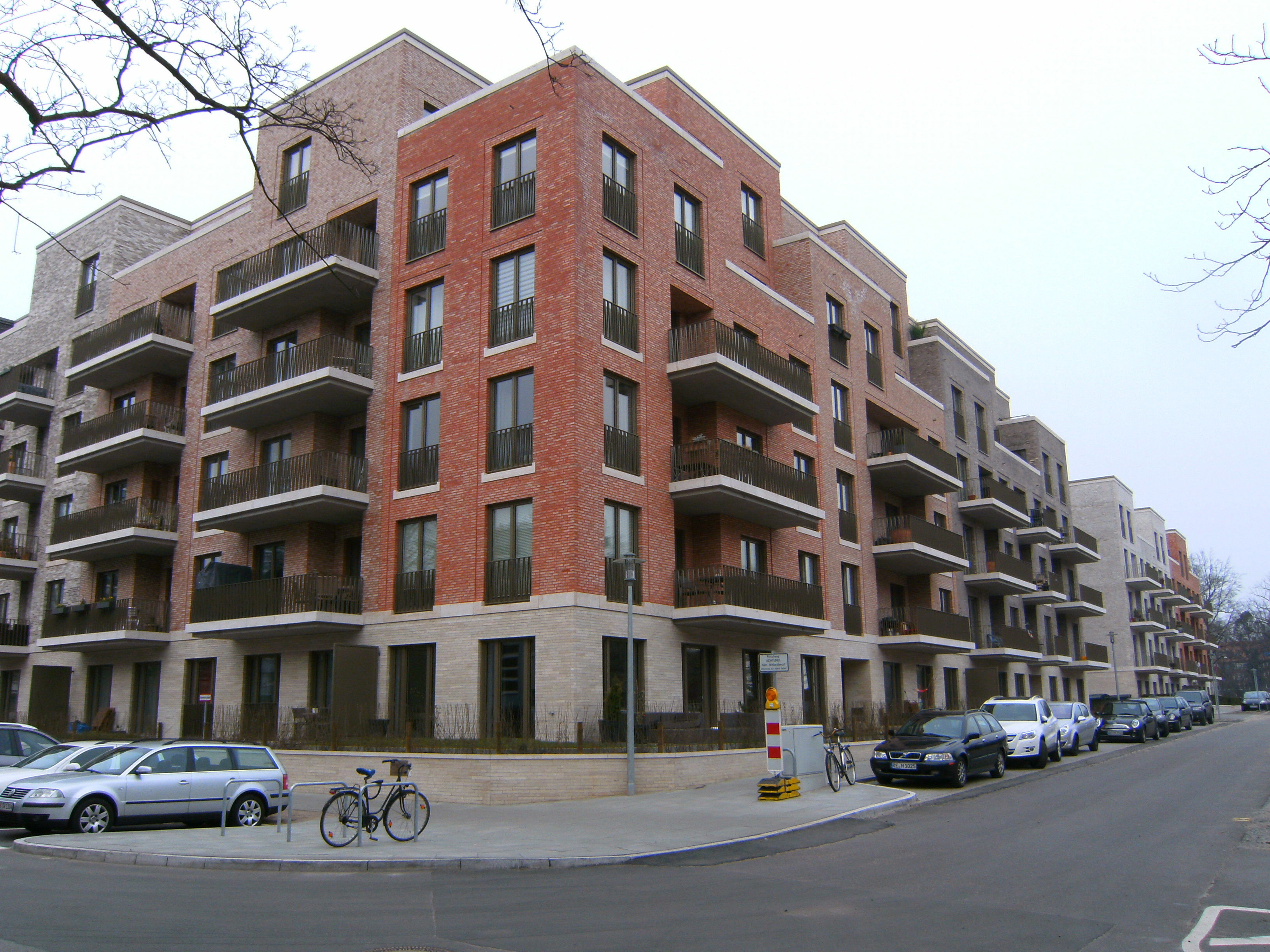 Building block of eleven multiple dwelling units (eleven houses) in the street Finkenau.